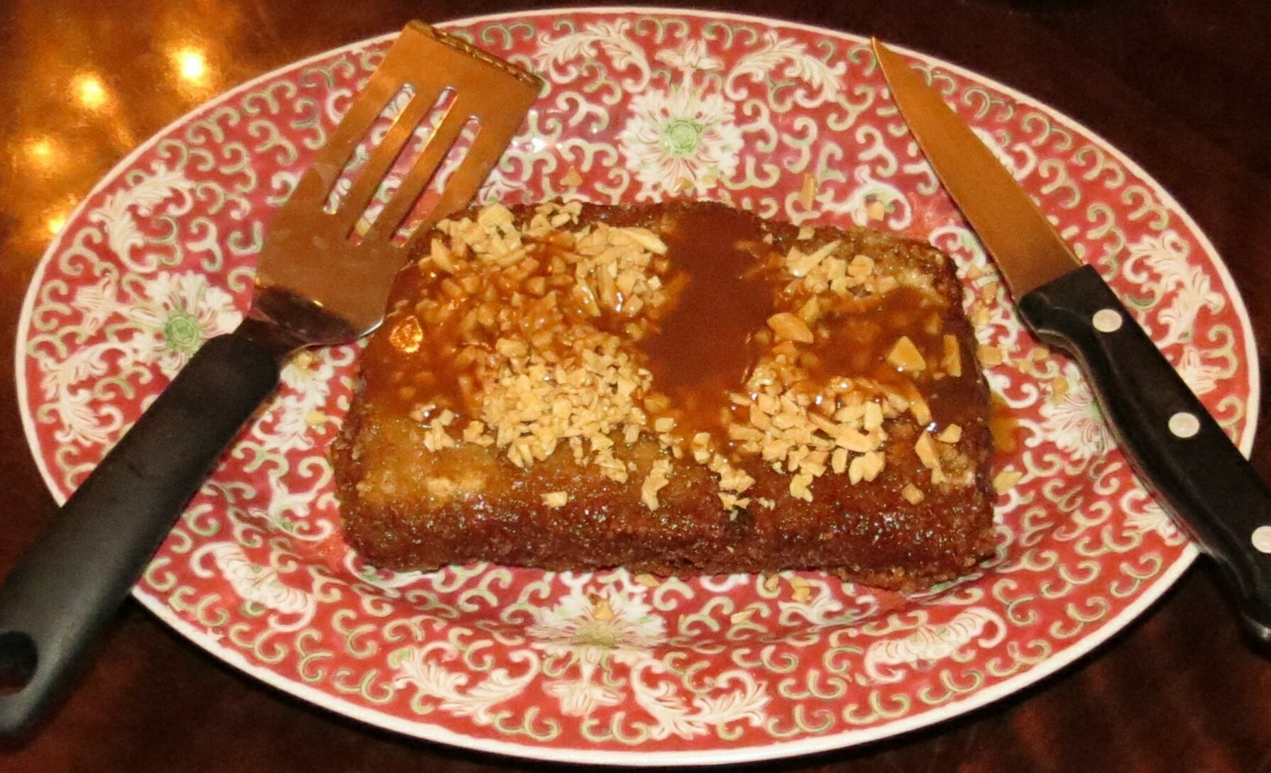 Mandarin (Almond) Pressed Duck, a traditional Cantonese dish